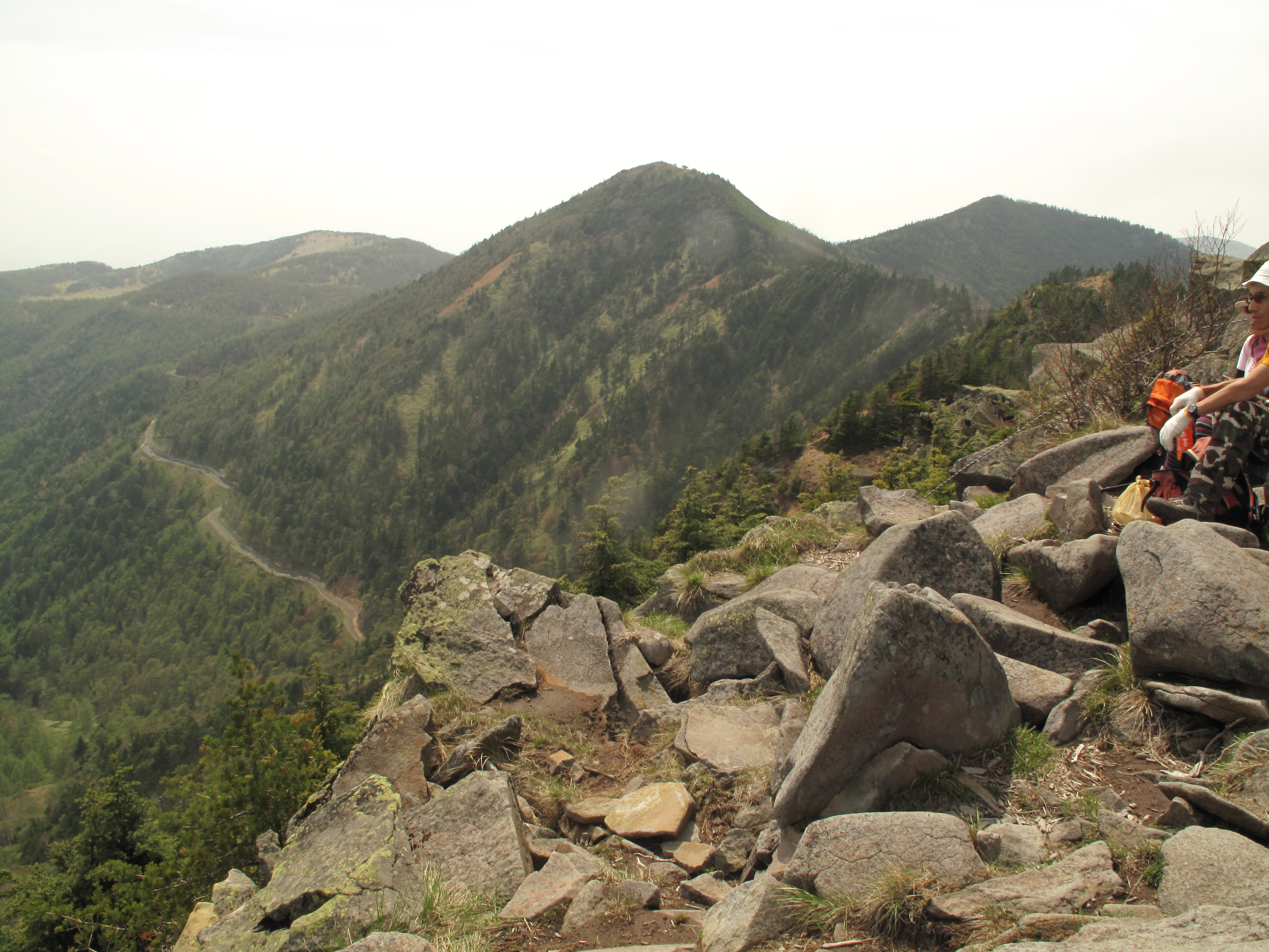 Mt. Higashi-Kagonoto (elev.2227m) seen from Mt. Mizunoto in Nagano Prefecture, Japan